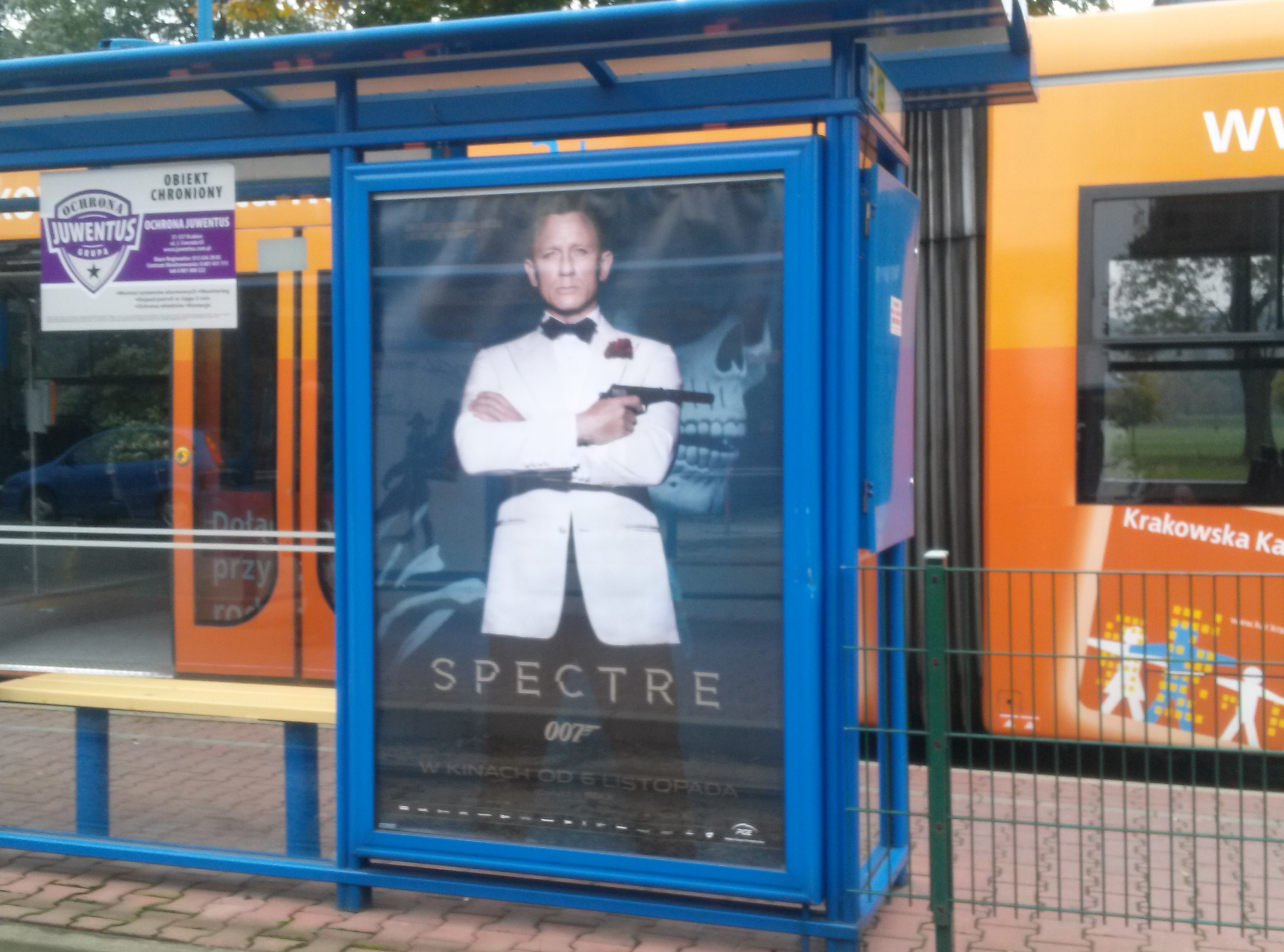 Cichy Kącik